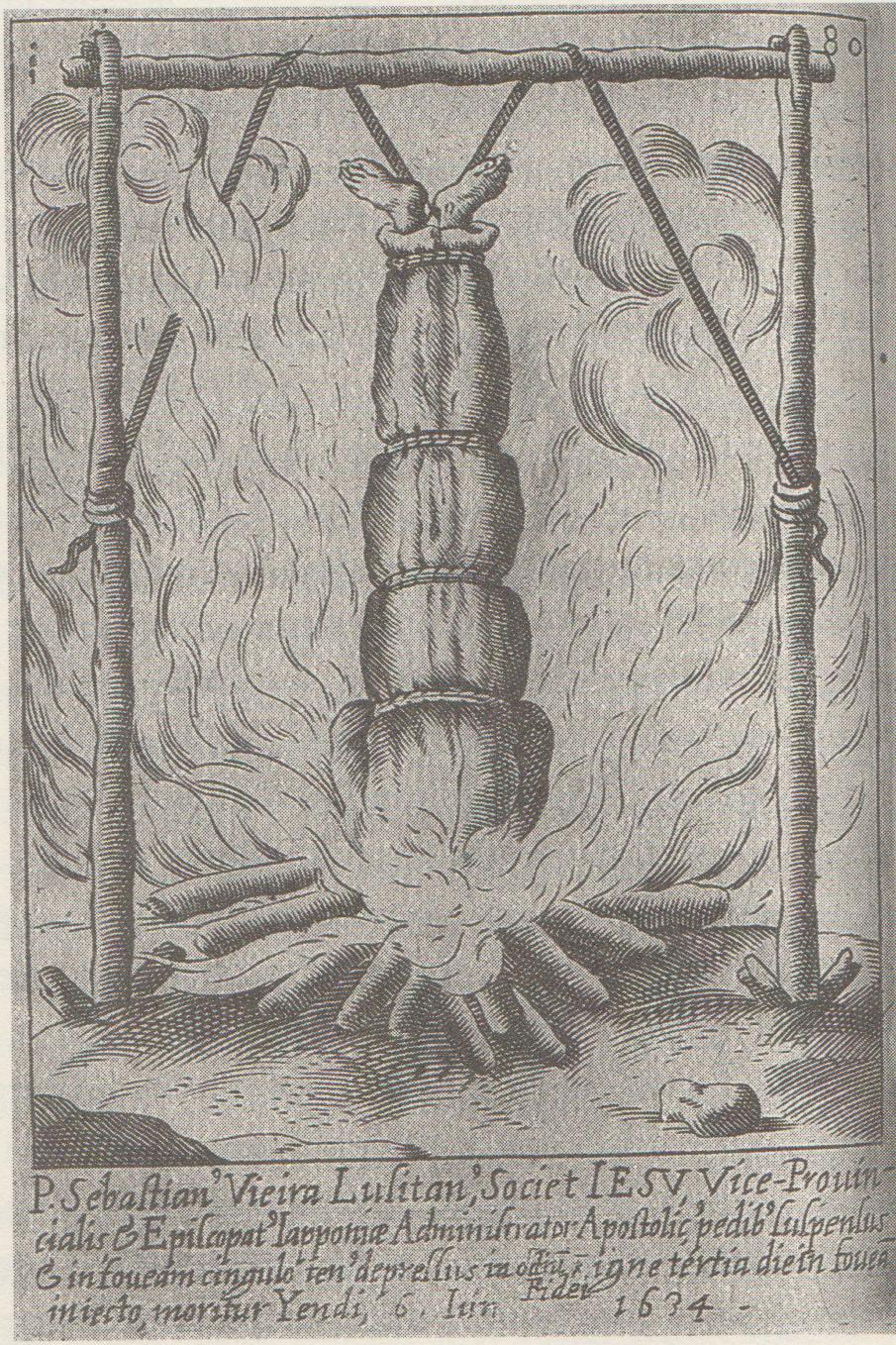 Depiction of death of Sebastiao Veita at Edo